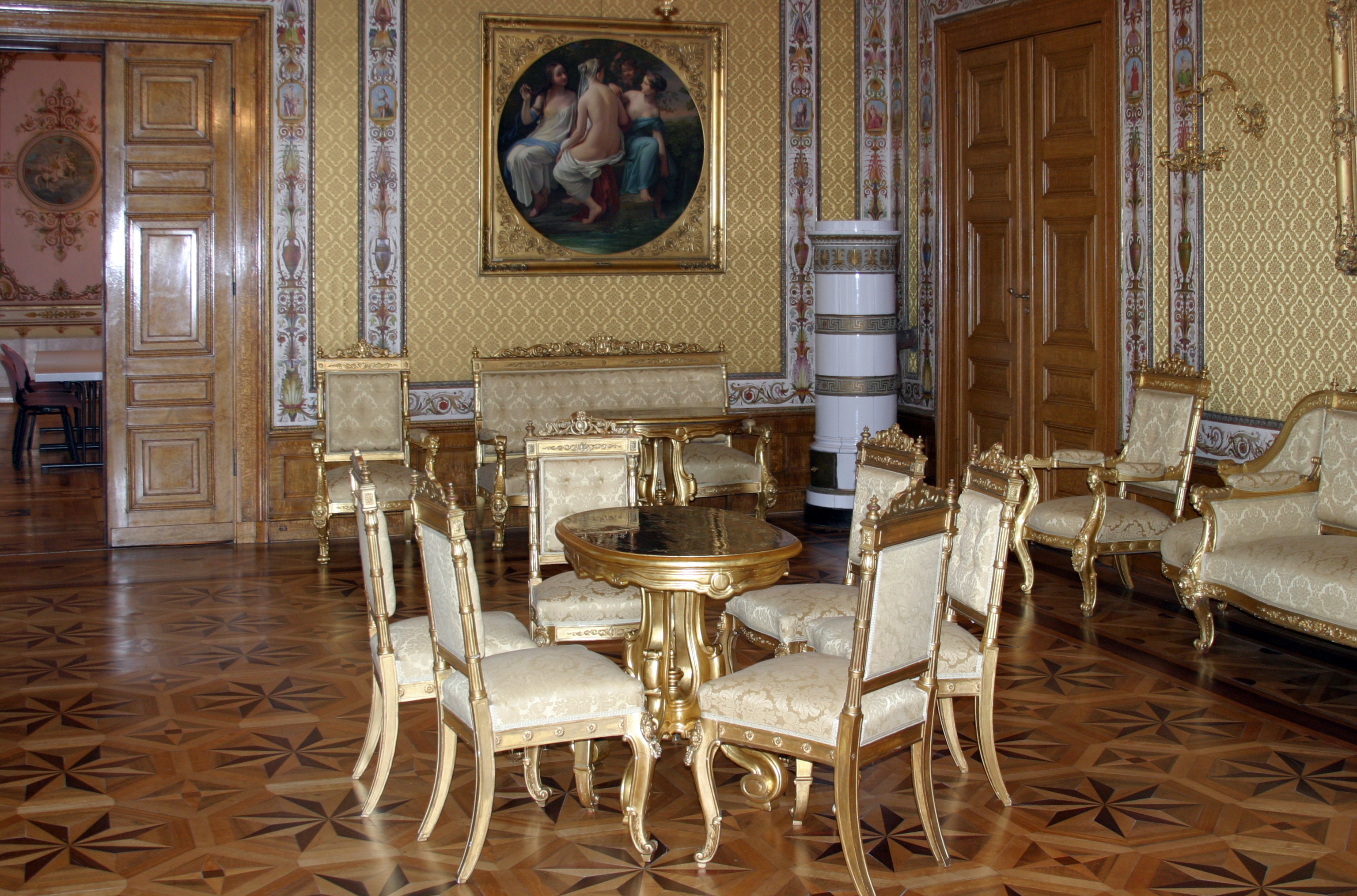 Yellow Sallon of the Wiesbaden City Palace